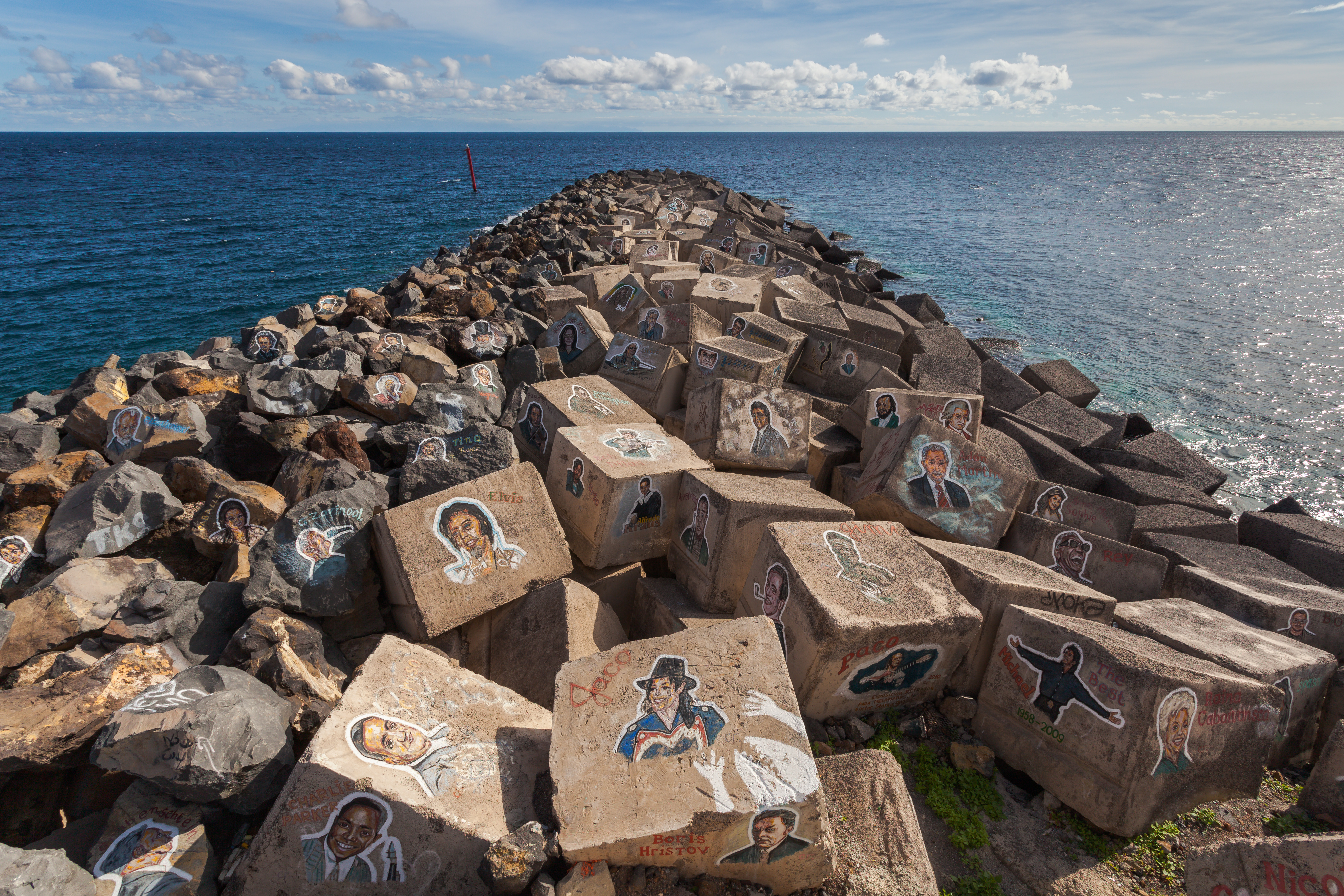 100 Faces of the Tenerife Auditorium, Santa Cruz de Tenerife, Spain